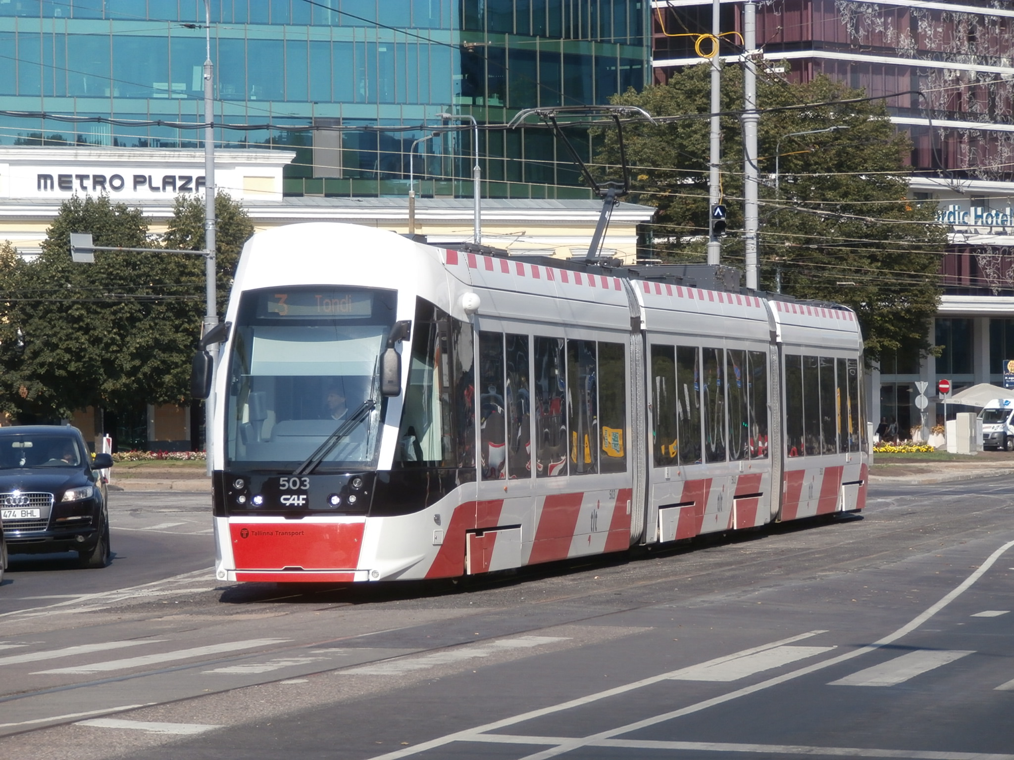 Tram 503 at Viru Square Tallinn 25 August 2015